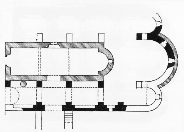 Panagia Chrysiotissa, Aphendrika